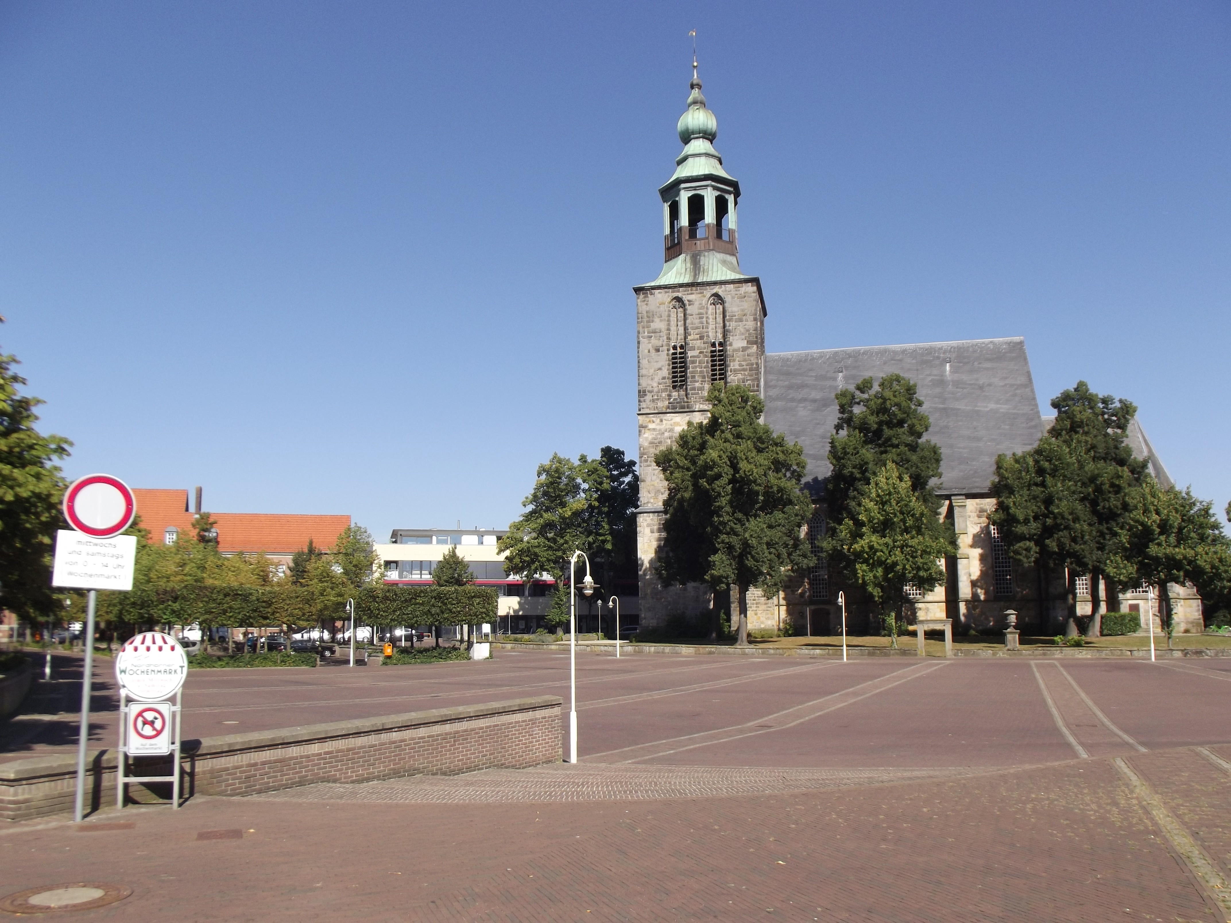 Outside market hours, quite early in the morning